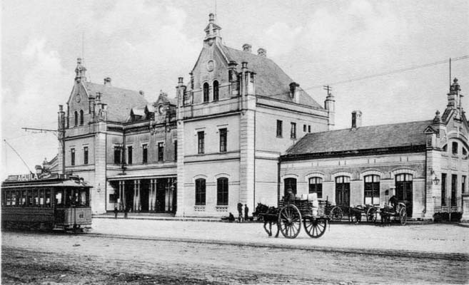 The Rosario (Central Córdoba Railway) station. It would be destroyed by fire in 1921 and reopened in 1926 with significative changes of style.